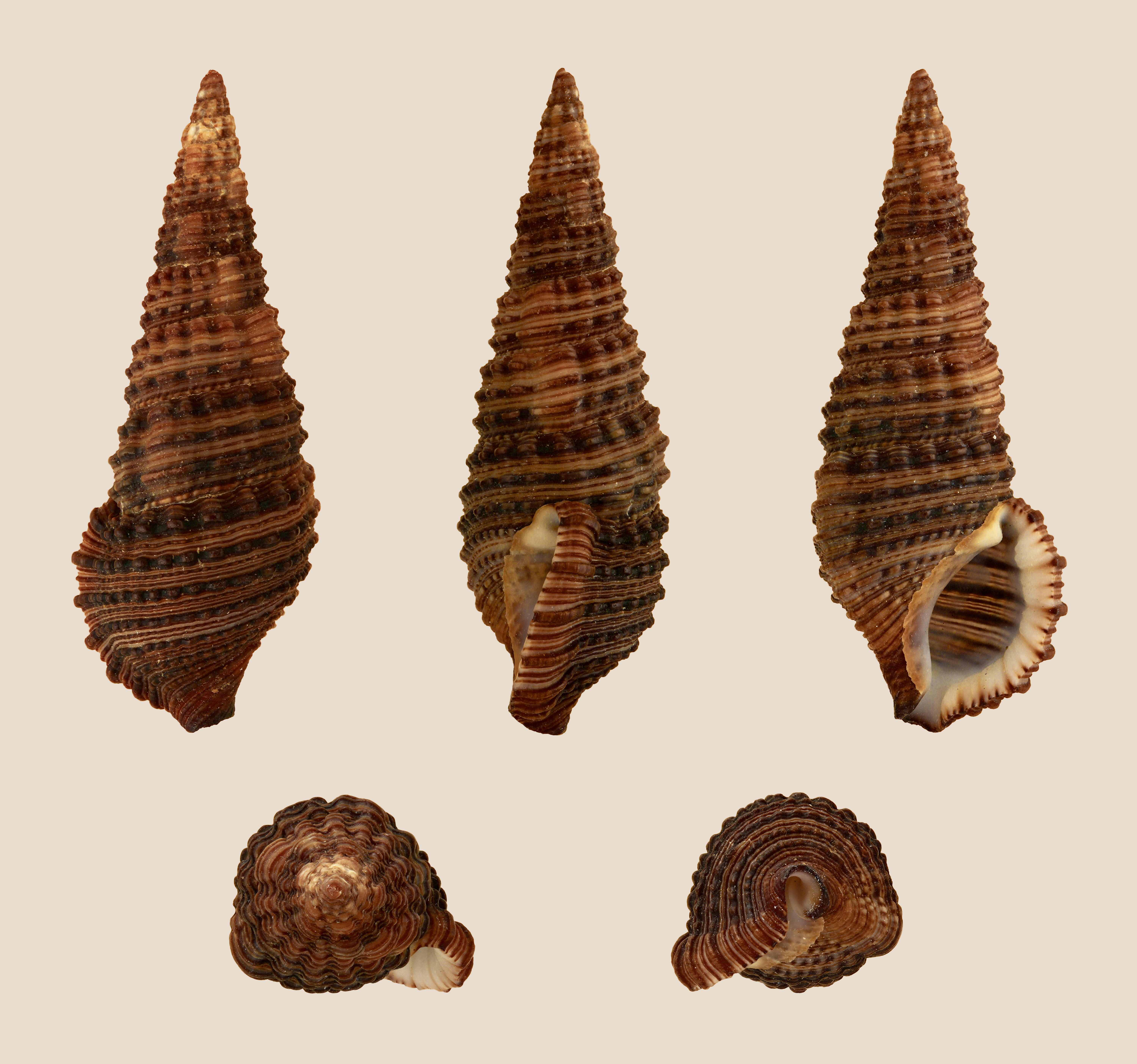 Coralline Cerith; Length 3.7 cm; Originating from the Camotes Islands, Philippines; Shell of own collection, therefore not geocoded. Dorsal, lateral (right side), ventral, back, and front view.